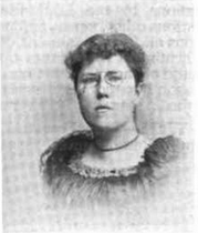 Julia Ditto Young